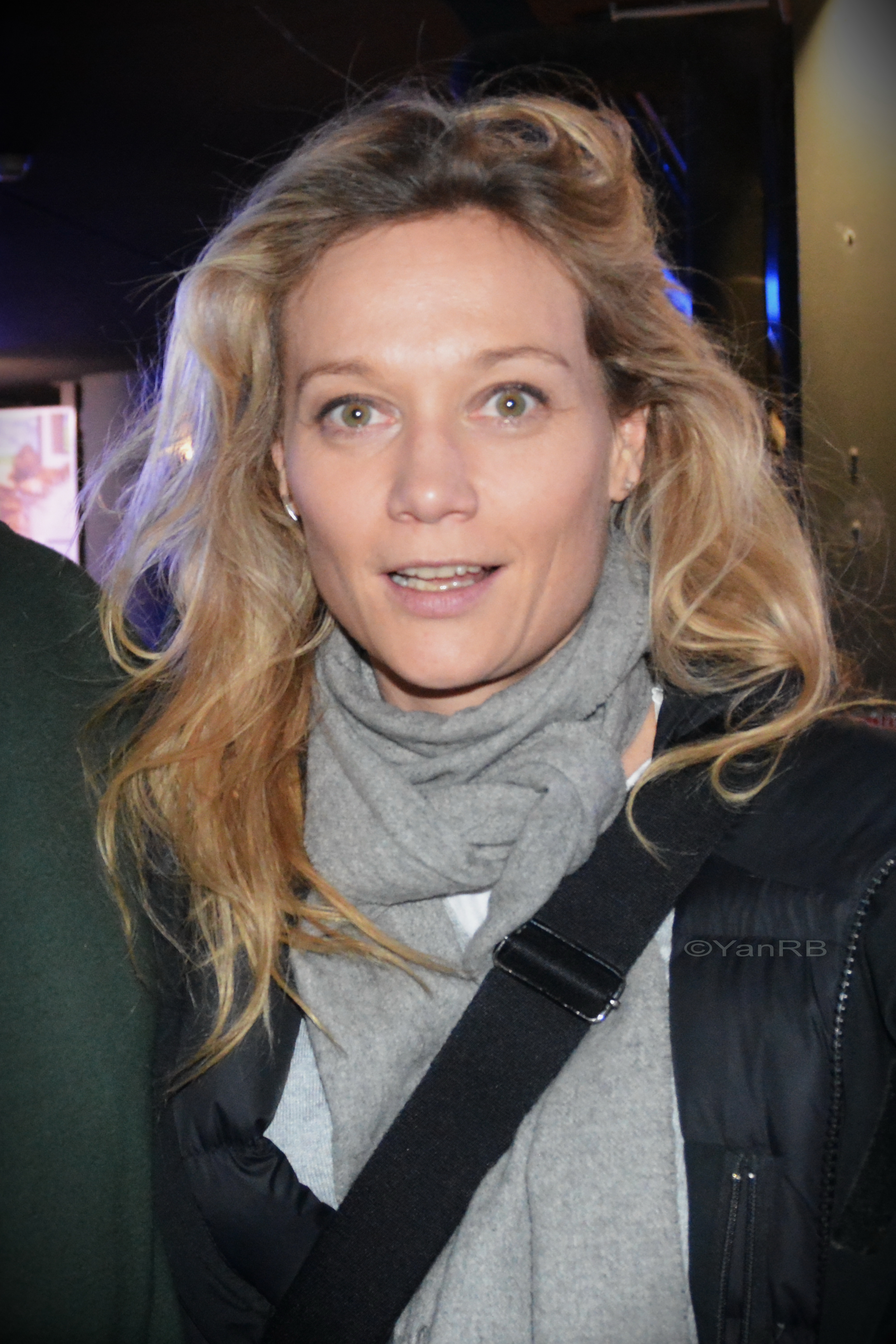 Caroline Vigneaux in Toulouse